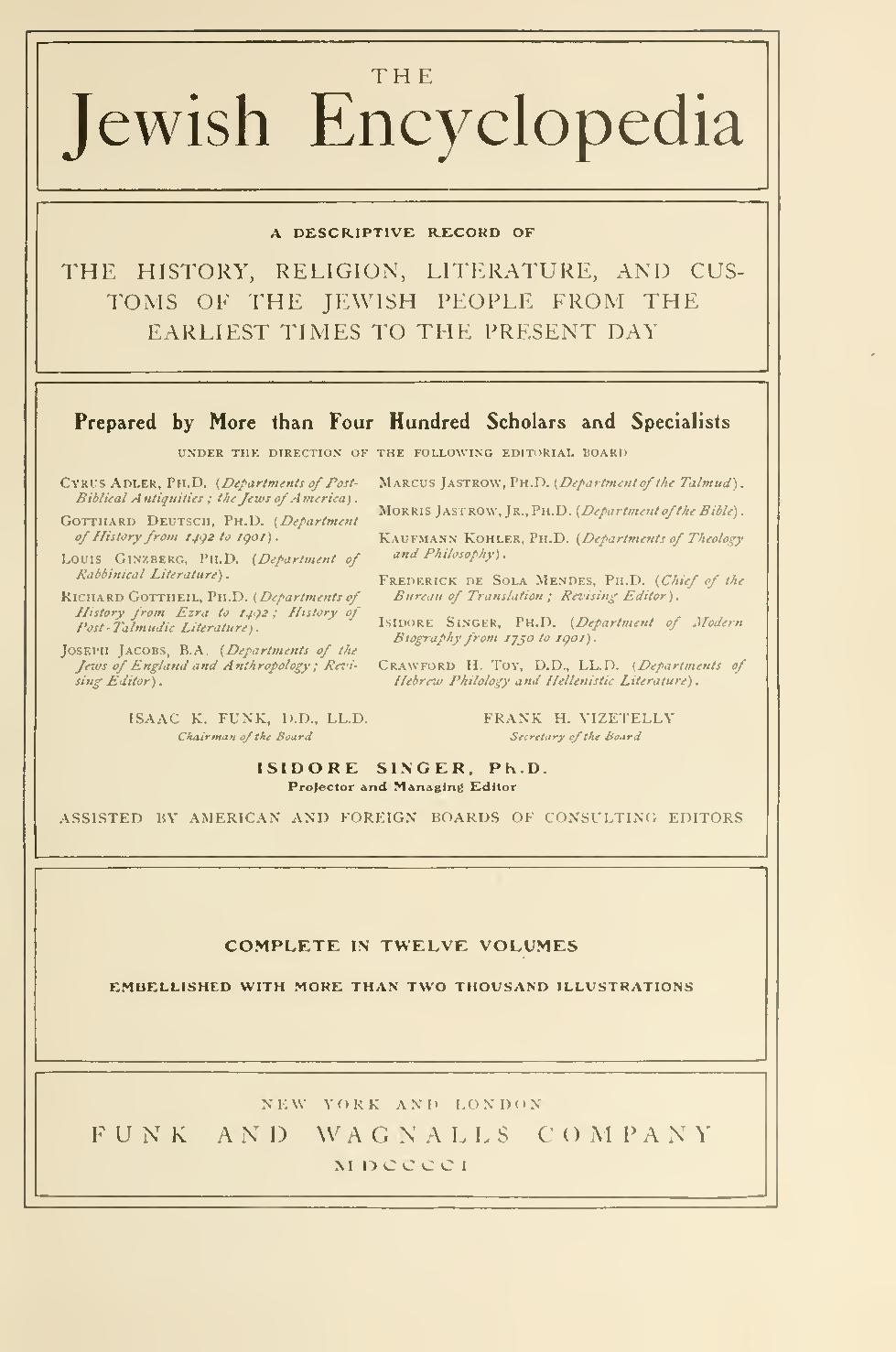 Cover page from the first volume of the Jewish Encyclopedia published by Funk & Wagnalls between 1901 and 1906.